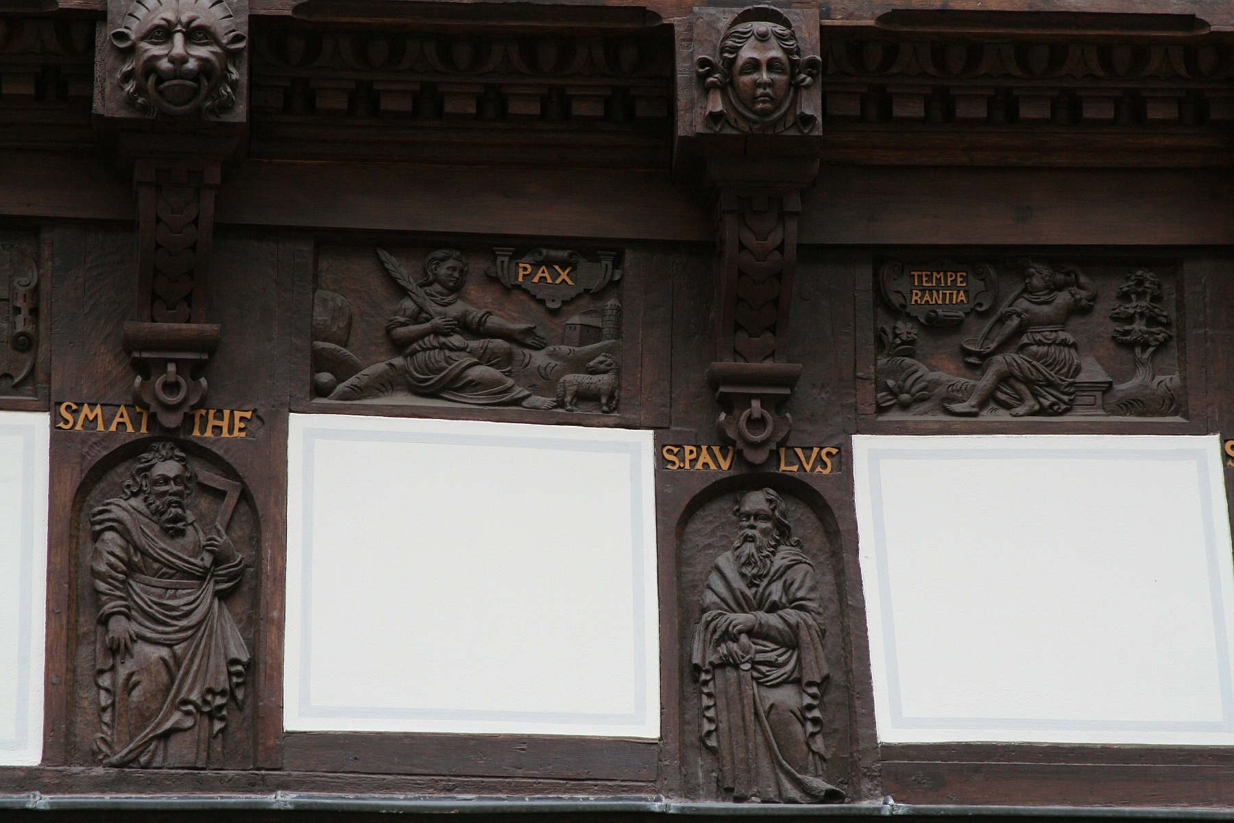 Detail mezzanine floor (view: Marktstrasse) at Eicke's House (German: Eickesches Haus), in Einbeck, Germany